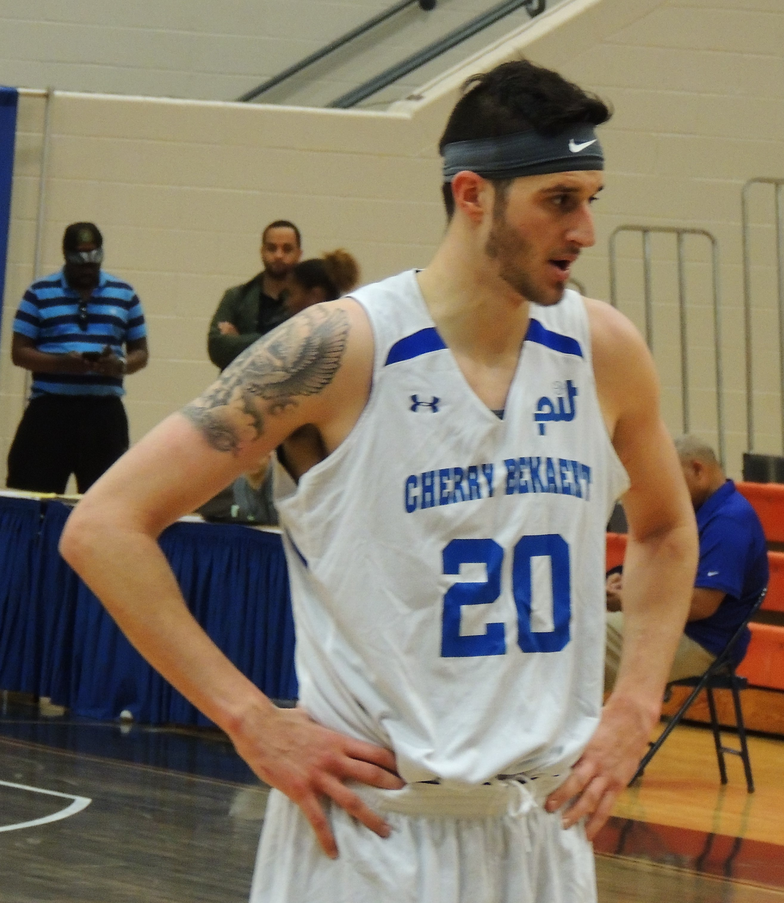 American basketball player Zach Hankins of Xavier University at the 2019 Portsmouth Invitational Tournament.